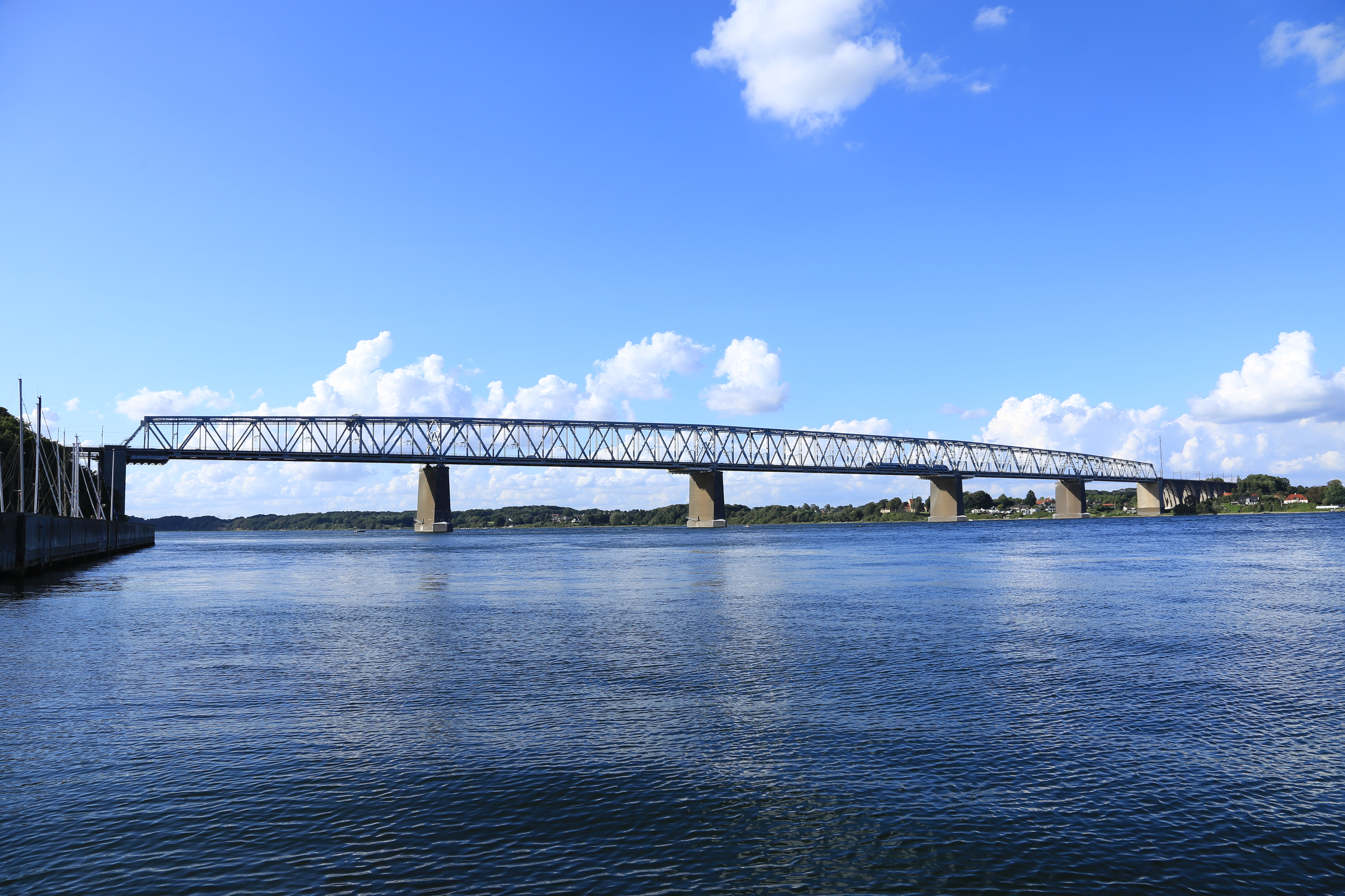 Lillebæltsbroen (1935) med et IC4-togsæt, set fra havnen i Middelfart.